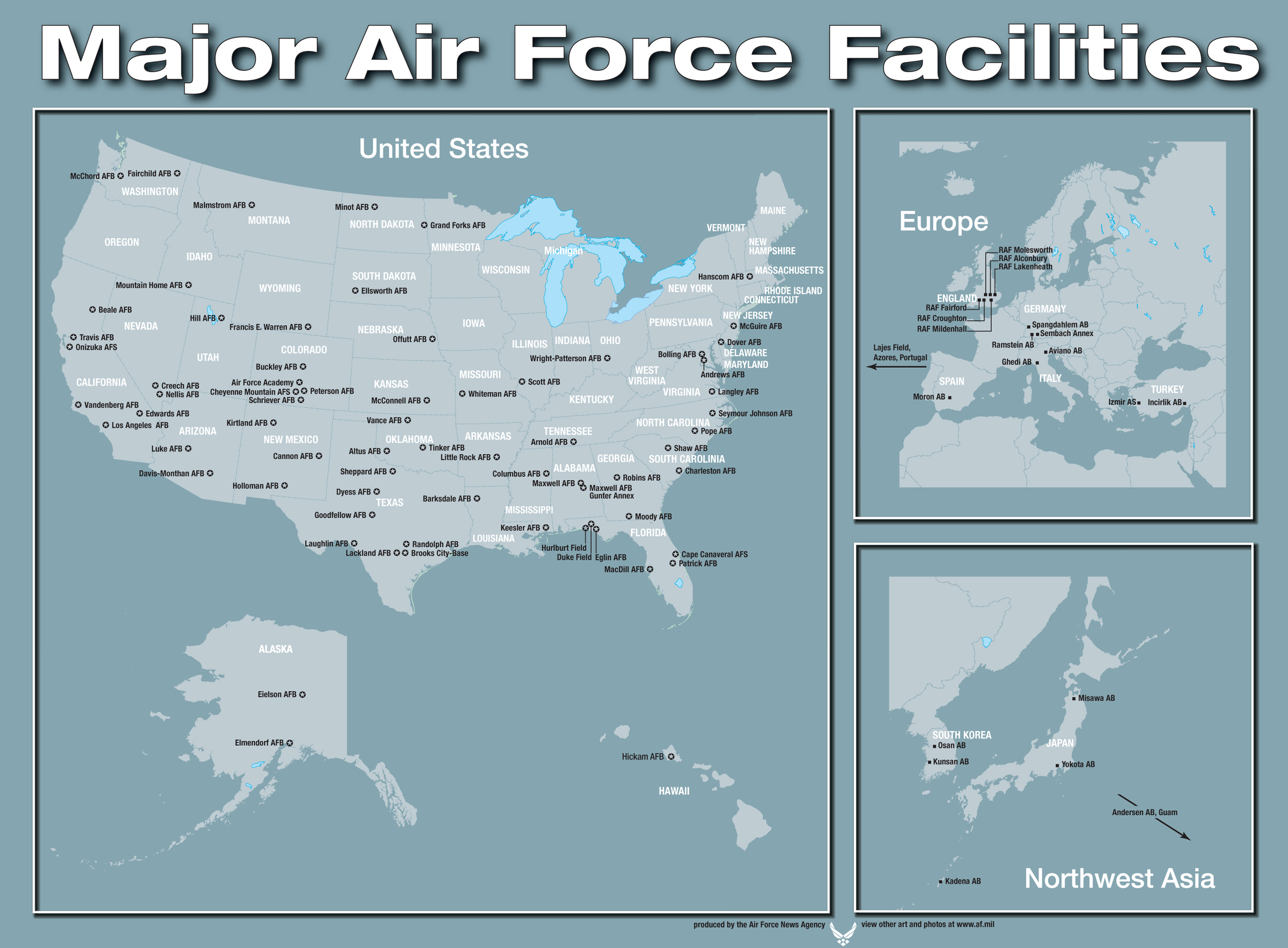 Map displaying major United States Air Force Base positions worldwide.